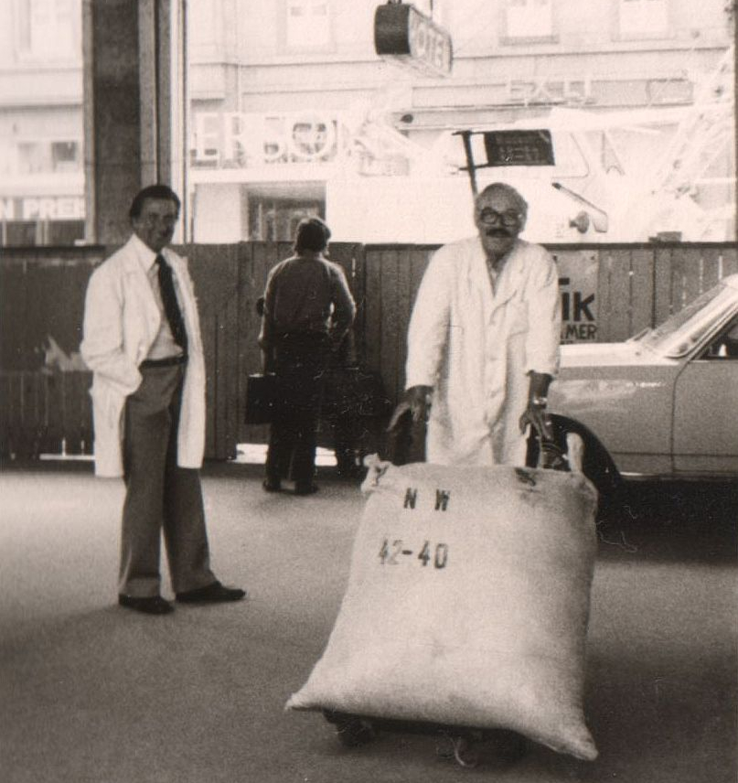 One of the photographs taken around or relating to the fur trade center Niddastrasse, Frankfurt am Main, Germany.